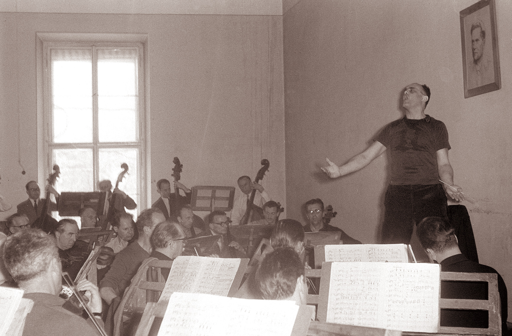 Oskar Danon during practise with the Maribor Symphony Orchestra in Maribor